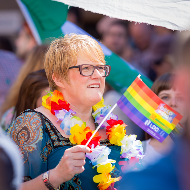 Trine Skei Grande participating in Oslo Pride Parade 2015.